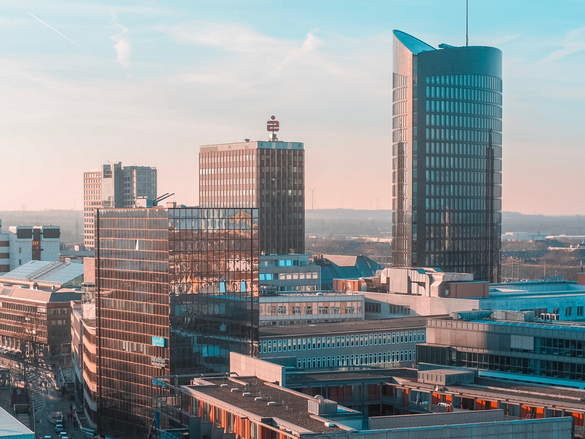 Dortmund central business district (CBD)